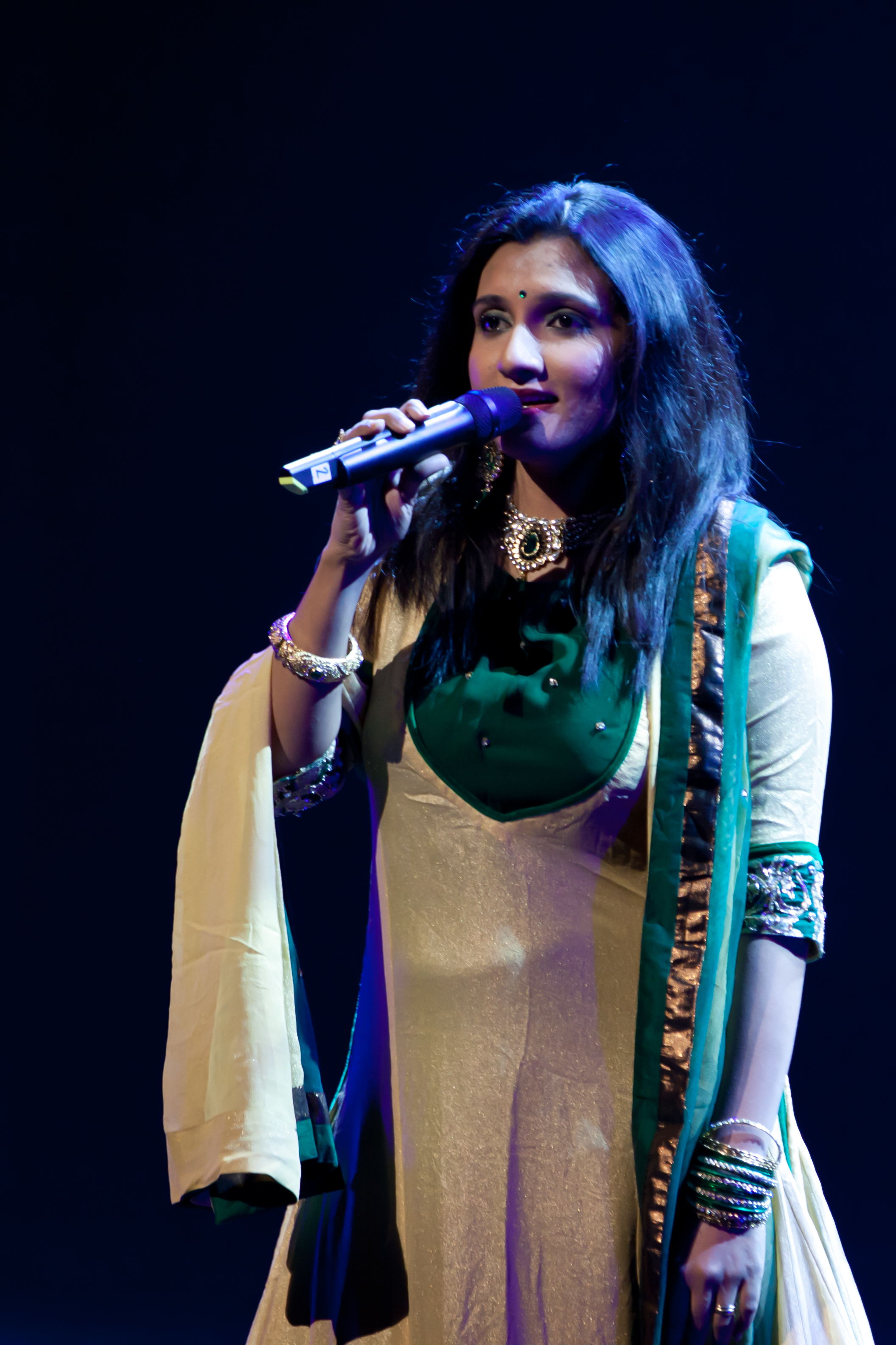 This media file is uploaded with Malayalam loves Wikimedia event - 2.